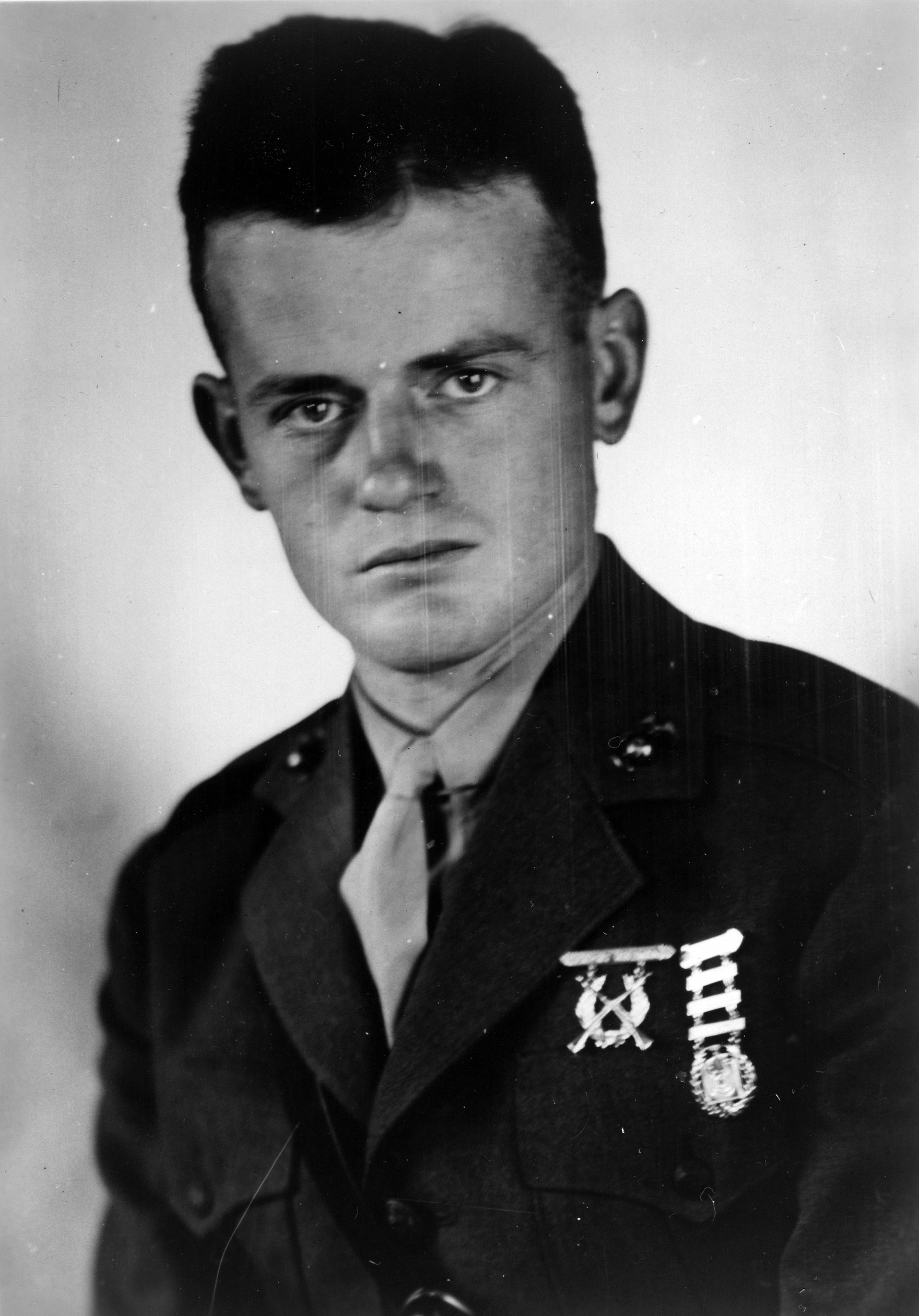 Future Brigadier general Gordon D. Gayle, USMC; here shown as second lieutenant on November 16, 1939.